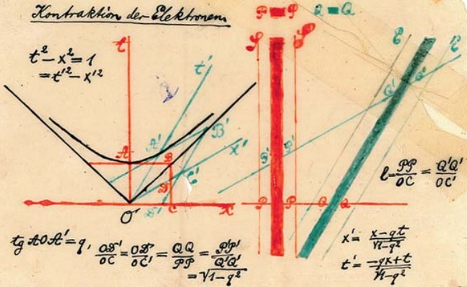 Hand-tinted transparency presented by Hermann Minkowski in his famous Raum und Zeit talk to the German Society of Scientists and Physicians in 1908